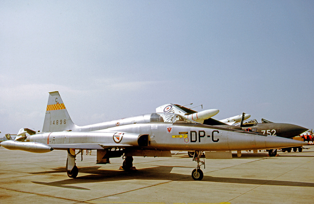 Northrop F-5A 14896 of 718 Squadron Norwegian Air Force in 1971